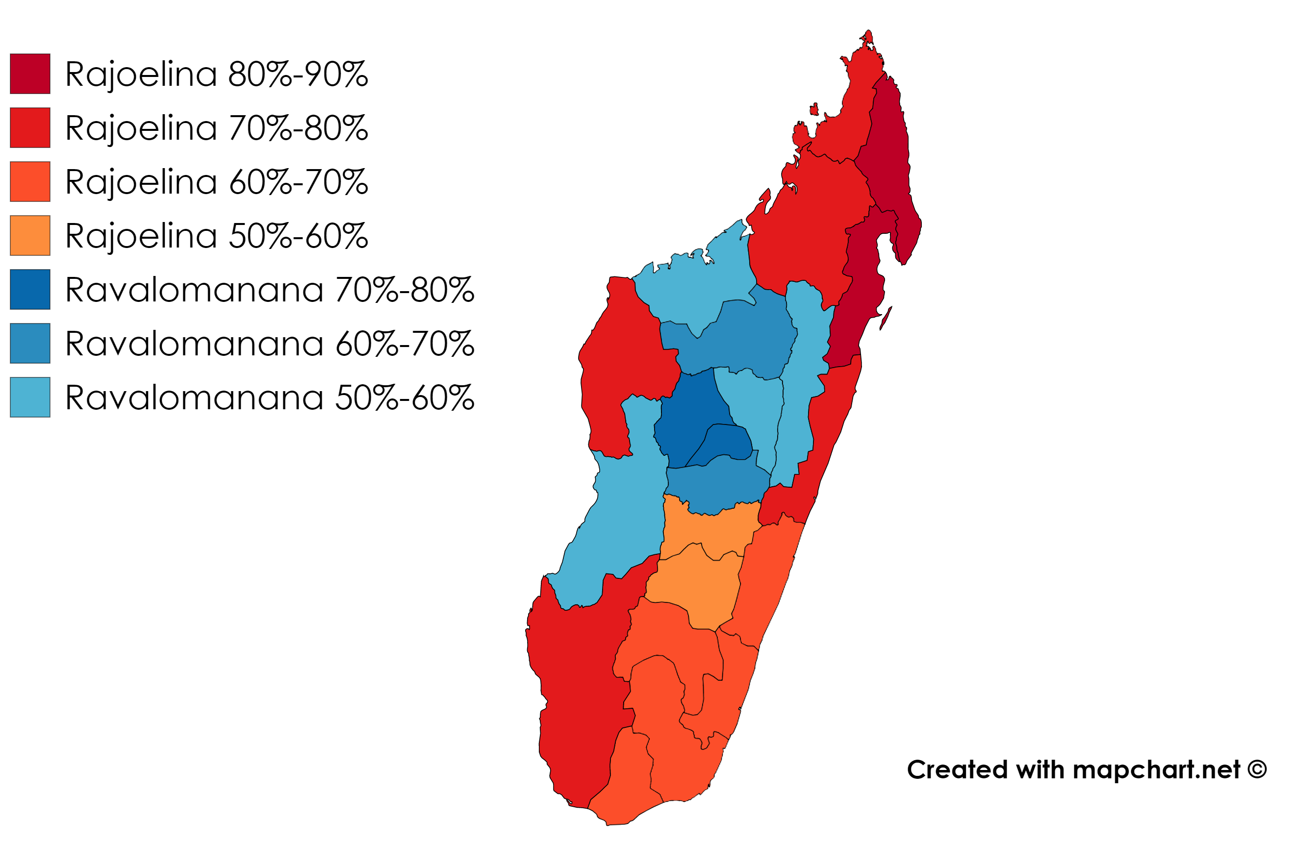 First place candidate on first round per malagasy region in the 2018 presidential election.